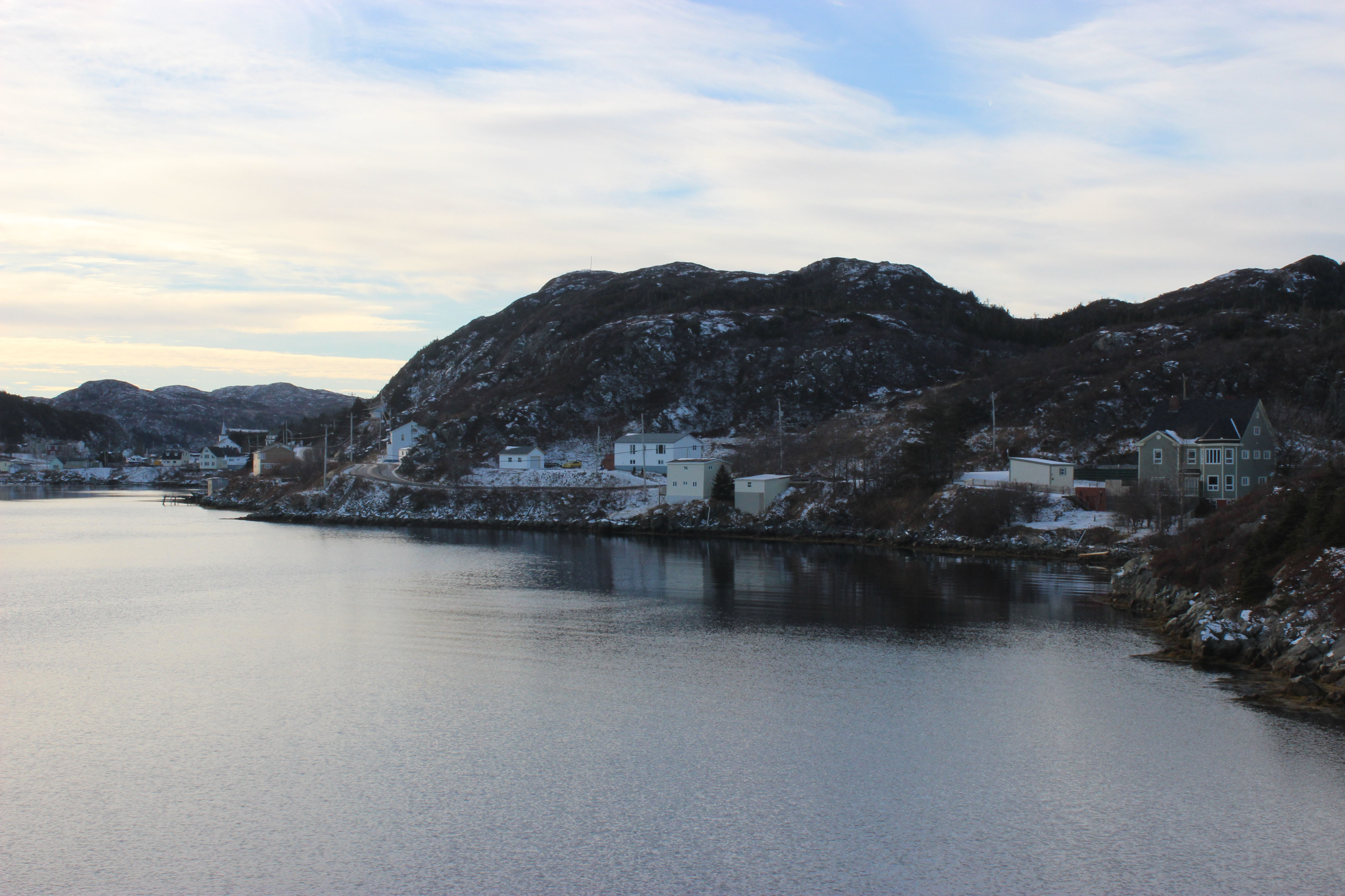 Burin Peninsula, southern coast of Newfoundland